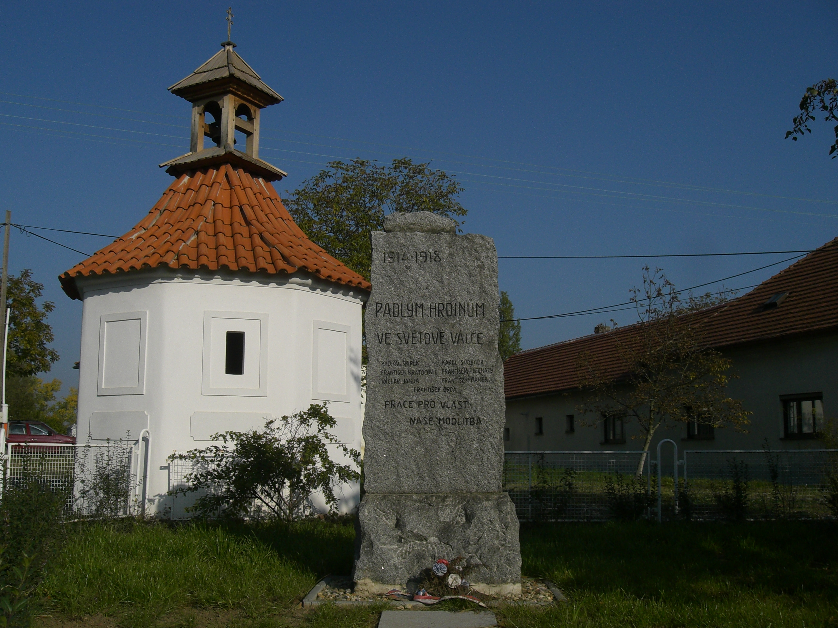 Roblín village in Prague-West District, Czech Republic. WWI memorial.